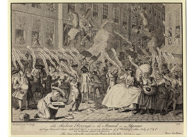 This print records events in the Strand on 2 July 1749, when a group of sailors ransacked a brothel, having been robbed there the night before. A young man named Bosavern Penlez was unjustly hanged for causing the riot.